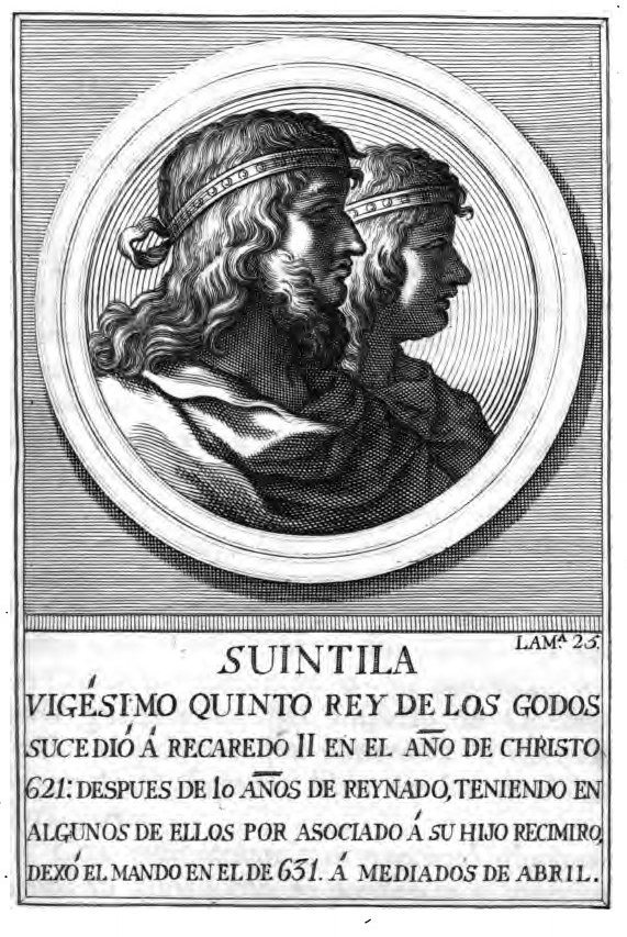 A poster of SUINTILA, Visigoth king, n° 25 in the chronological order of the book digitalized by Google since the bookshop in the University of Oxford.